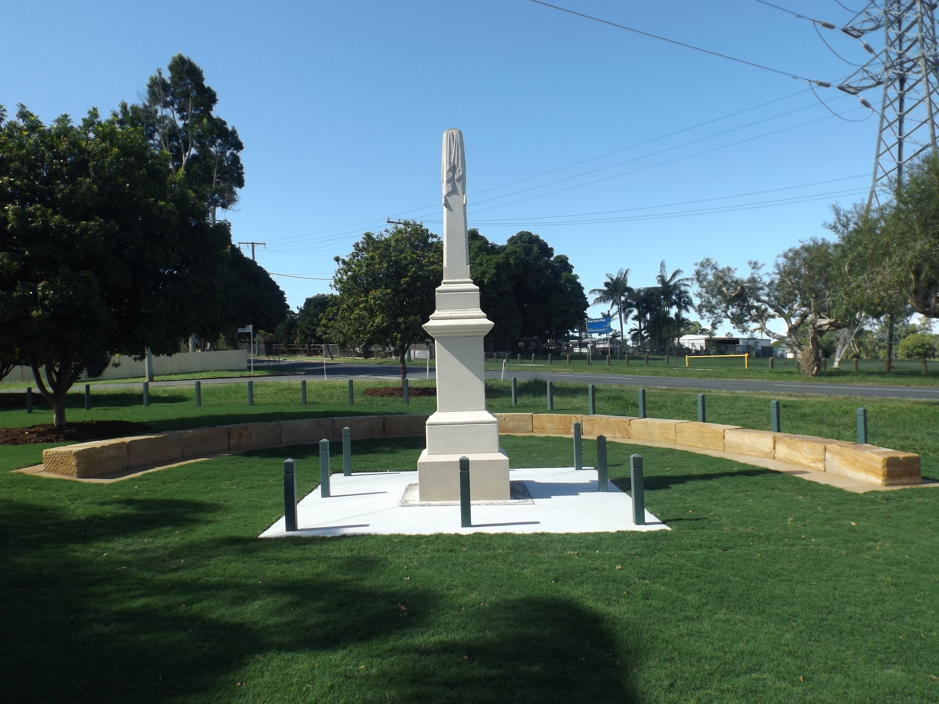 Photo of Anning Monument at Hemmant, Brisbane, Queensland, Australia.